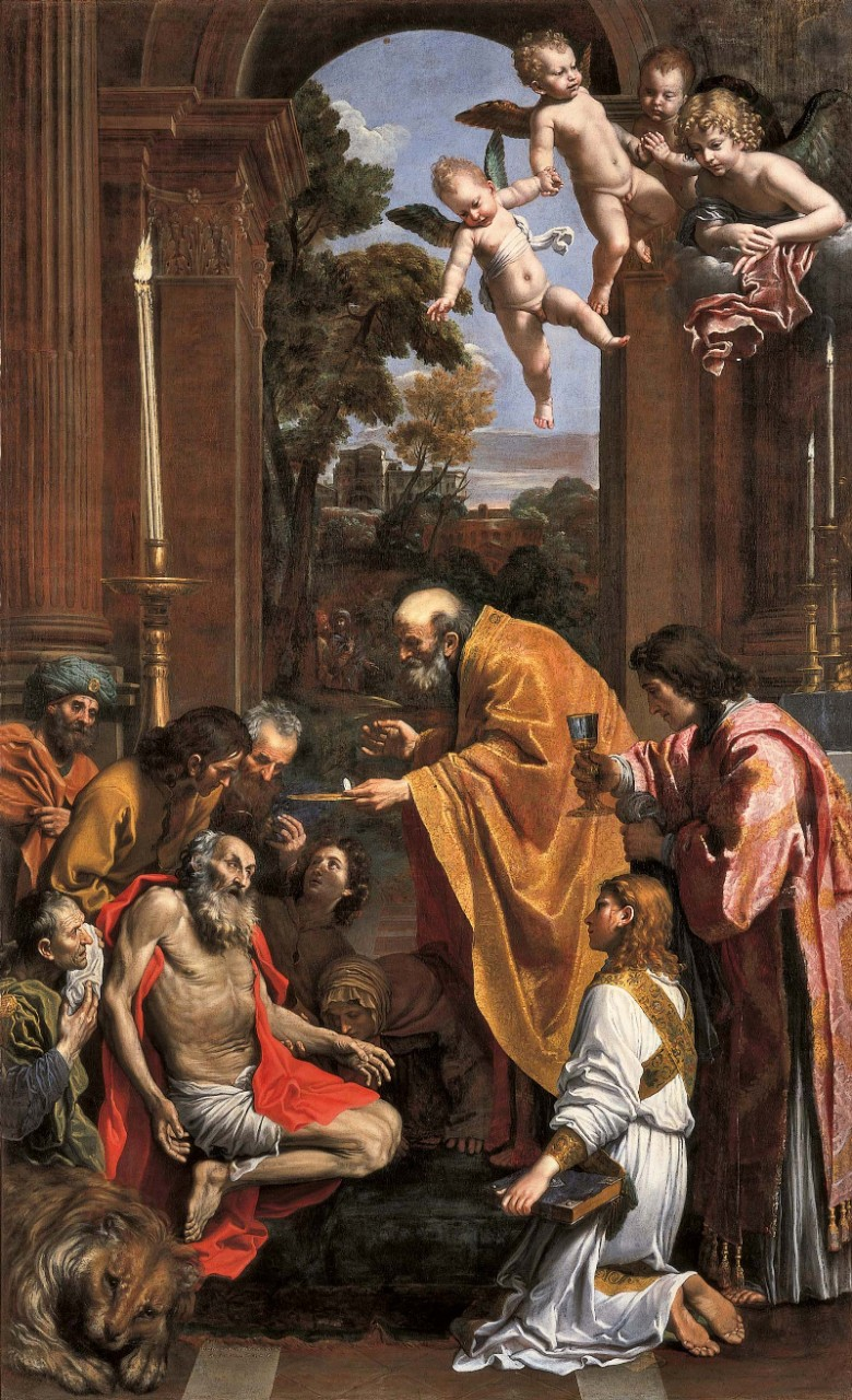 Domenichino altarpiece in Rome